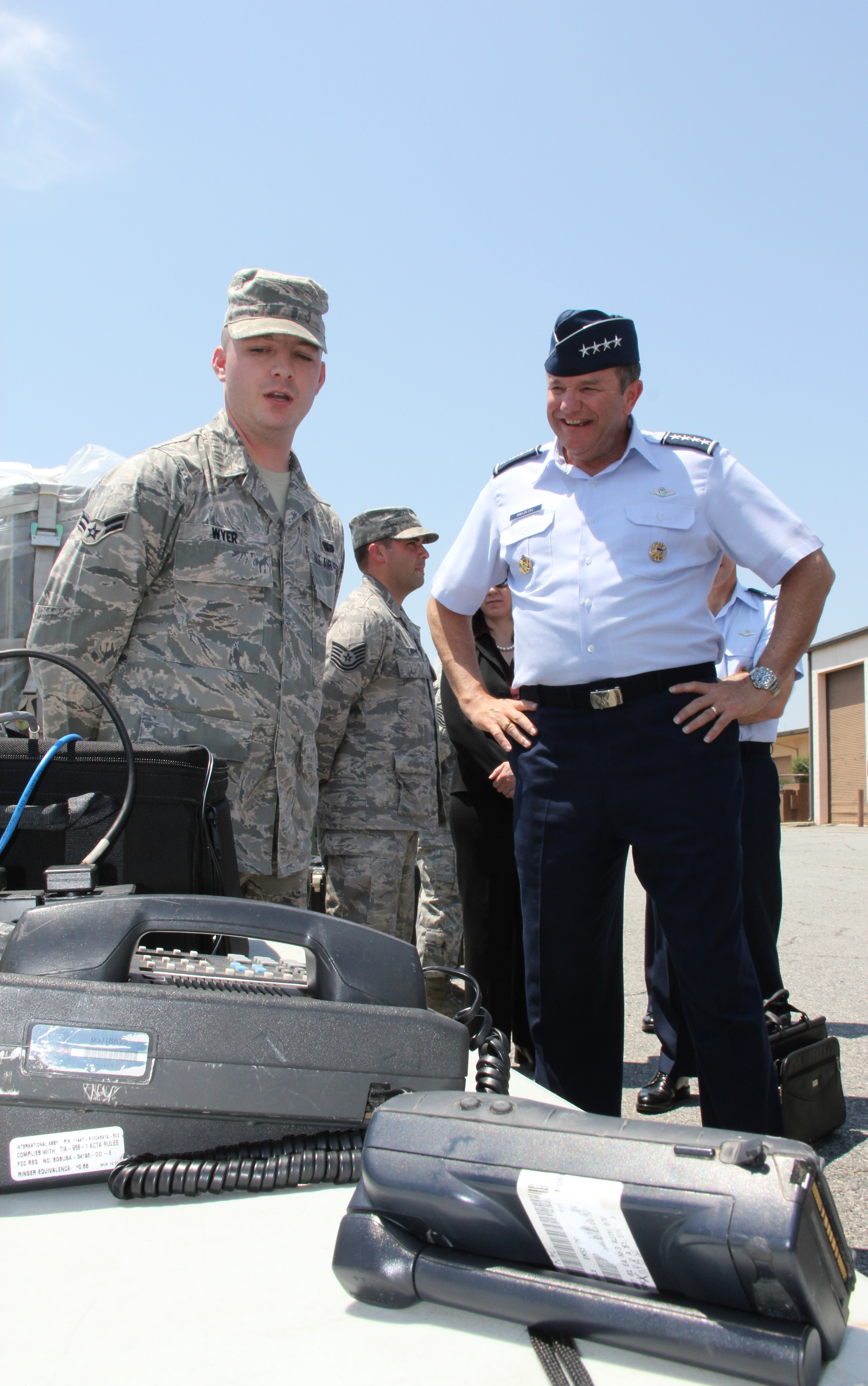 Airman 1st Class Justin Wyer, 52nd Combat Communications Squadron radio frequency transmissions systems technician, briefs Air Force Vice Chief of Staff Gen. Phil Breedlove on an initial communications fly-away kit here April 30. Breedlove visited Combat Comm as part of his first tour to the installation as the vice chief of staff of the Air Force.